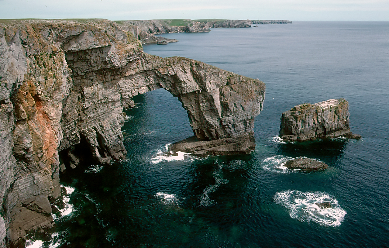 Green Bridge of Wales, Pebrokeshire, Wales